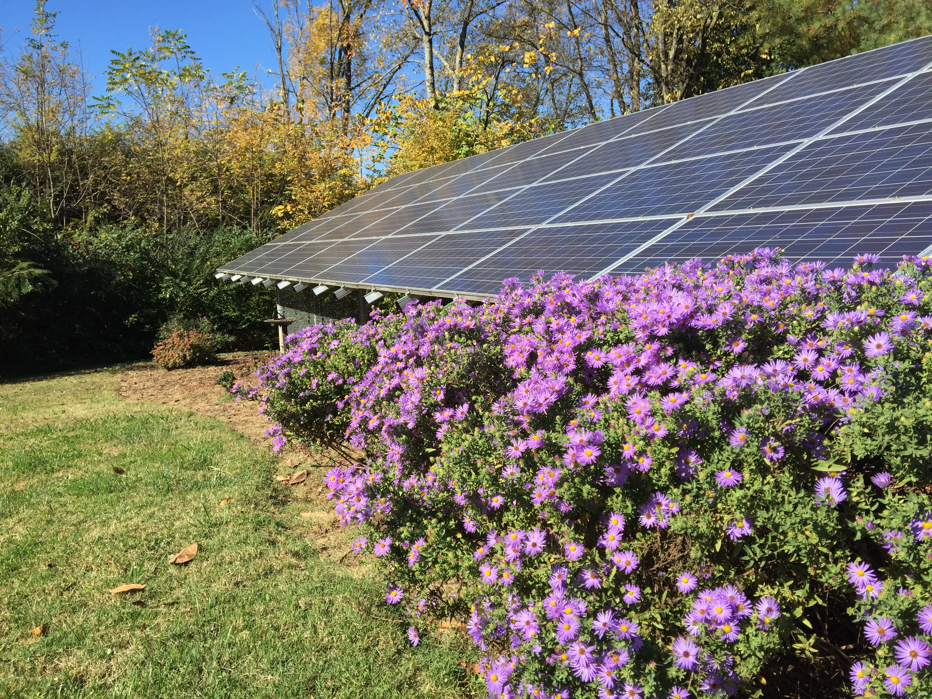 Solarcell panels in Tennessee